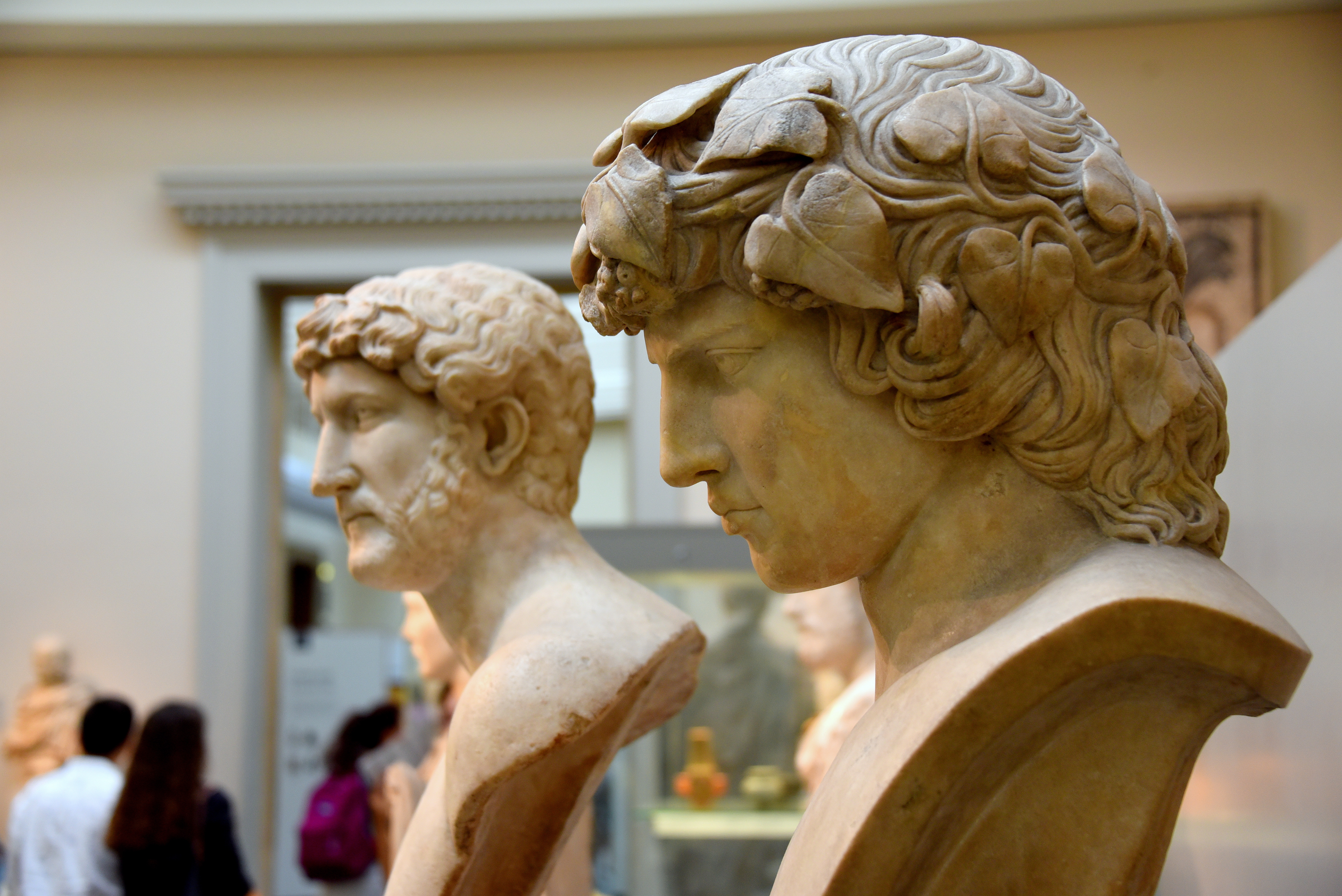 Marble busts of Hadrian (left, 117-138 CE, probably from Rome) and Antinous (right, 130-138 CE, from Rome). Antinous was Hadrian's lover. He met Hadrian in 120s CE and died in the Nile, Egypt, in 130 CE. The British Museum, London.